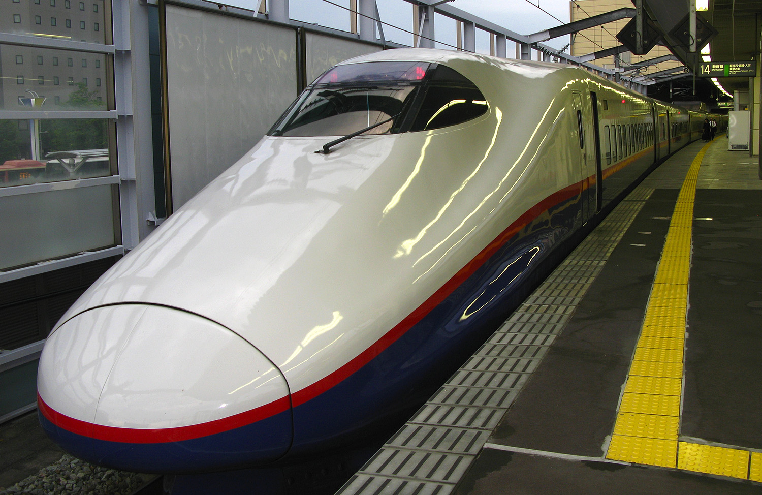 Train on Nagano (Hokuriku) Shinkansen at Nagano Station in Japan